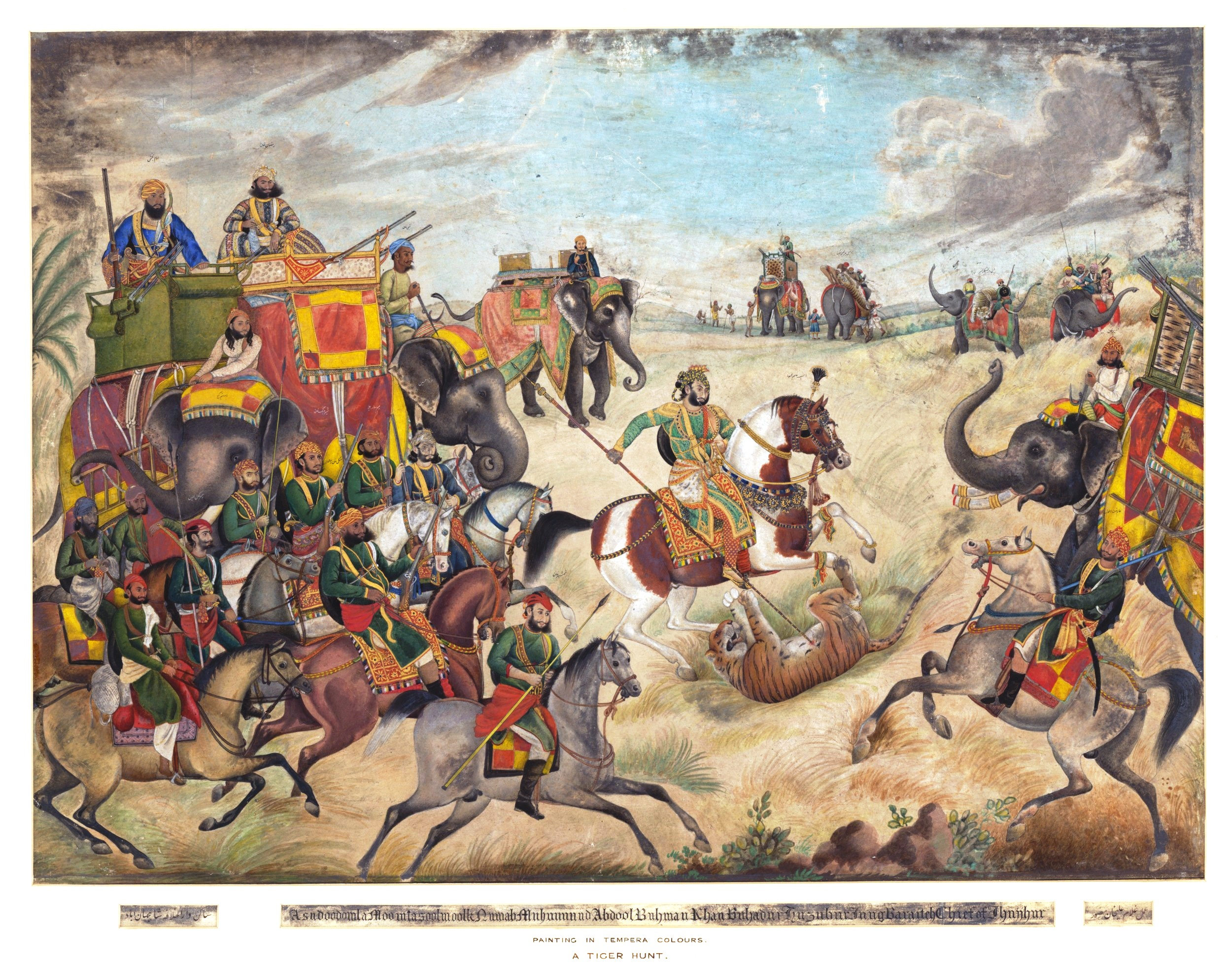 This Company painting is by Ghulam Ali Khan, who was working in Delhi around 1820 and was the brother of another Company artist, Faiz Ali Khan. The painting depicts a tiger hunt at Jhajjar, Rohtak District, Panjab. Nearly all of the figures and some of the elephants are inscribed with their names in small Persian characters. In the centre of the hunt can be seen Nawab Muhammad Abdul Rahman Khan on horseback spearing a tiger, and on the horizon is a line of elephants carrying dead tigers and a deer. The nawab was a landlord in Rohtak District who owned Jhajjar, Badli and Karaund. He rebelled during the so-called 'Indian Mutiny' (also known as the First War of Indian Independence) and was executed by the British in Delhi on 23 December, 1857. 'Company paintings' were produced by Indian artists for Europeans living and working in the Indian subcontinent, especially British employees of the East India Company. They represent a fusion of traditional Indian artistic styles with conventions and technical features borrowed from western art. Some Company paintings were specially commissioned, while others were virtually mass-produced and could be purchased in bazaars.